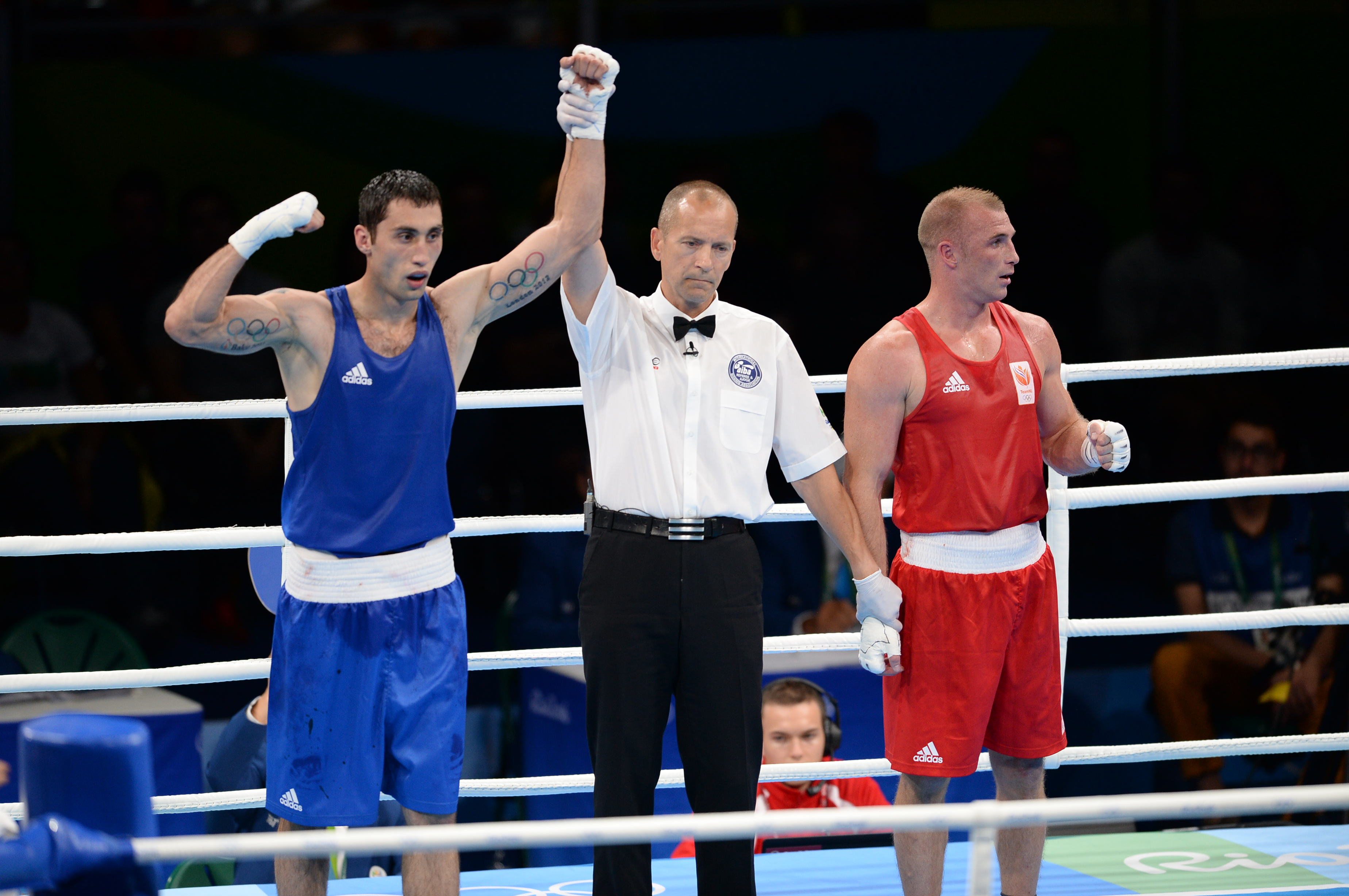 Boxing at the 2016 Summer Olympics, Mammadov vs Müllenberg